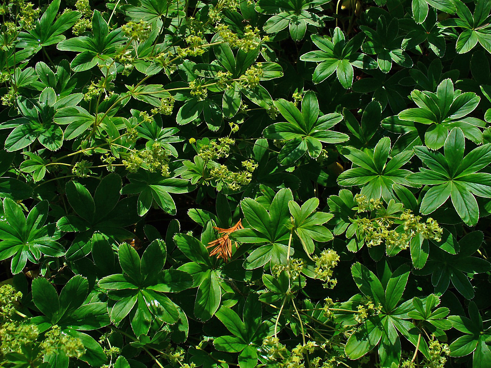 Alchemilla hoppeana, Rosaceae, Alpen Lady's Mantle, habitus; Botanical Garden KIT, Karlsruhe, Germany.